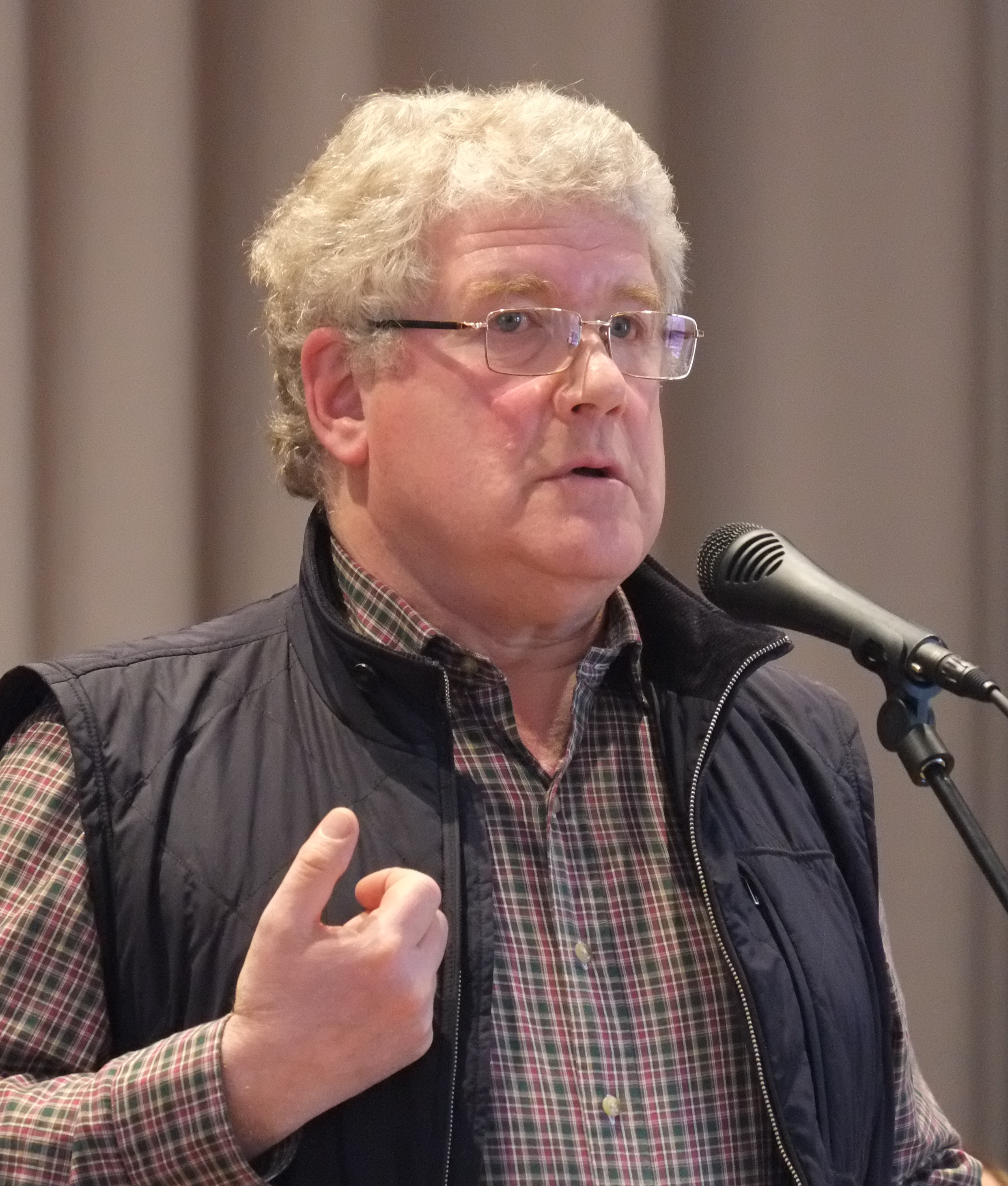 The first session of the intellectuals Congress "Against war, against self-isolation of Russia, against restoration of totalitarism", Moscow, March 19 2014, Large hall of Library For Foreign Literature.